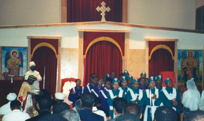 An Ethiopian Orthodox choir sings in front of an iconostasis. St. Michael Ethiopian Orthodox Church Garland, Texas November 20, 1999 Photo by Gyrofrog Uploaded to Wikimedia Commons on January 12, 2007 for use by the Wikimedia Foundation and/or its various projects (Wikipedia etc.) For any other use, please give credit to Gyrofrog or Wikimedia Commons.